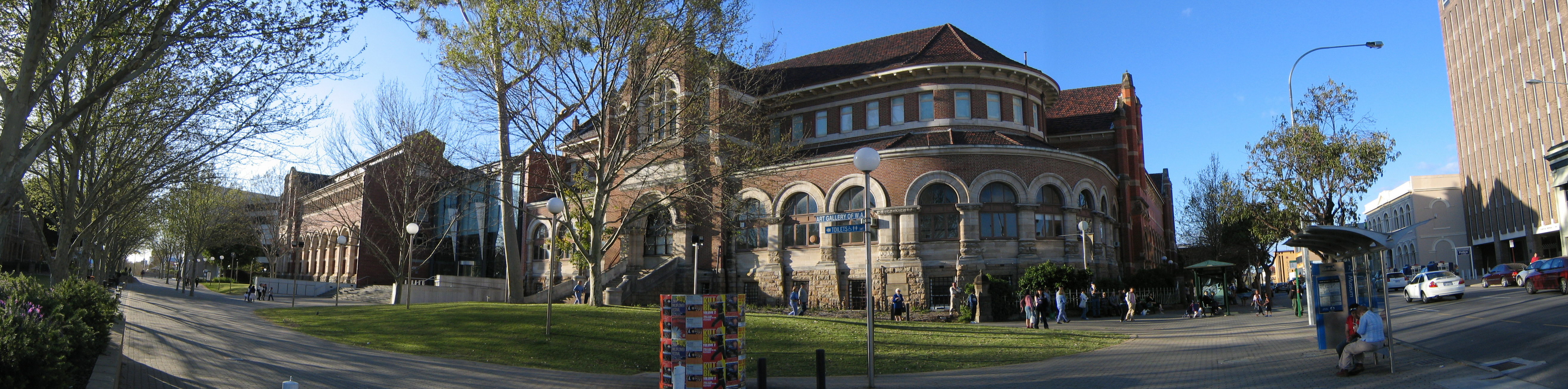 The Western Australian Museum, corner of James St and Beaufort St, Perth, Australia.